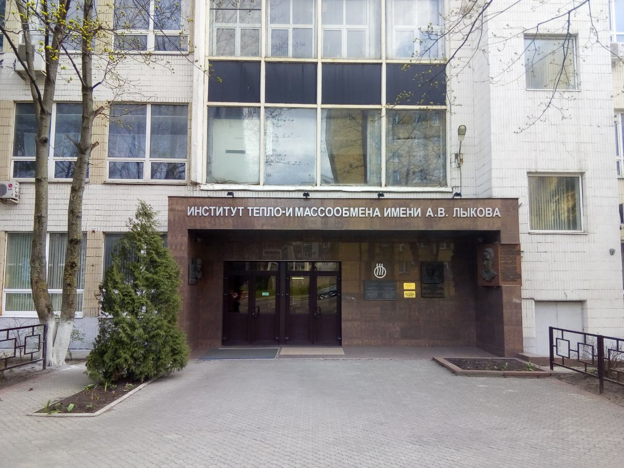 Entrance to the Heat and Mass Transfer Institute of the National Academy of Sciences of Belarus (15 Broŭki Street, Minsk; 20th of April, 2019)